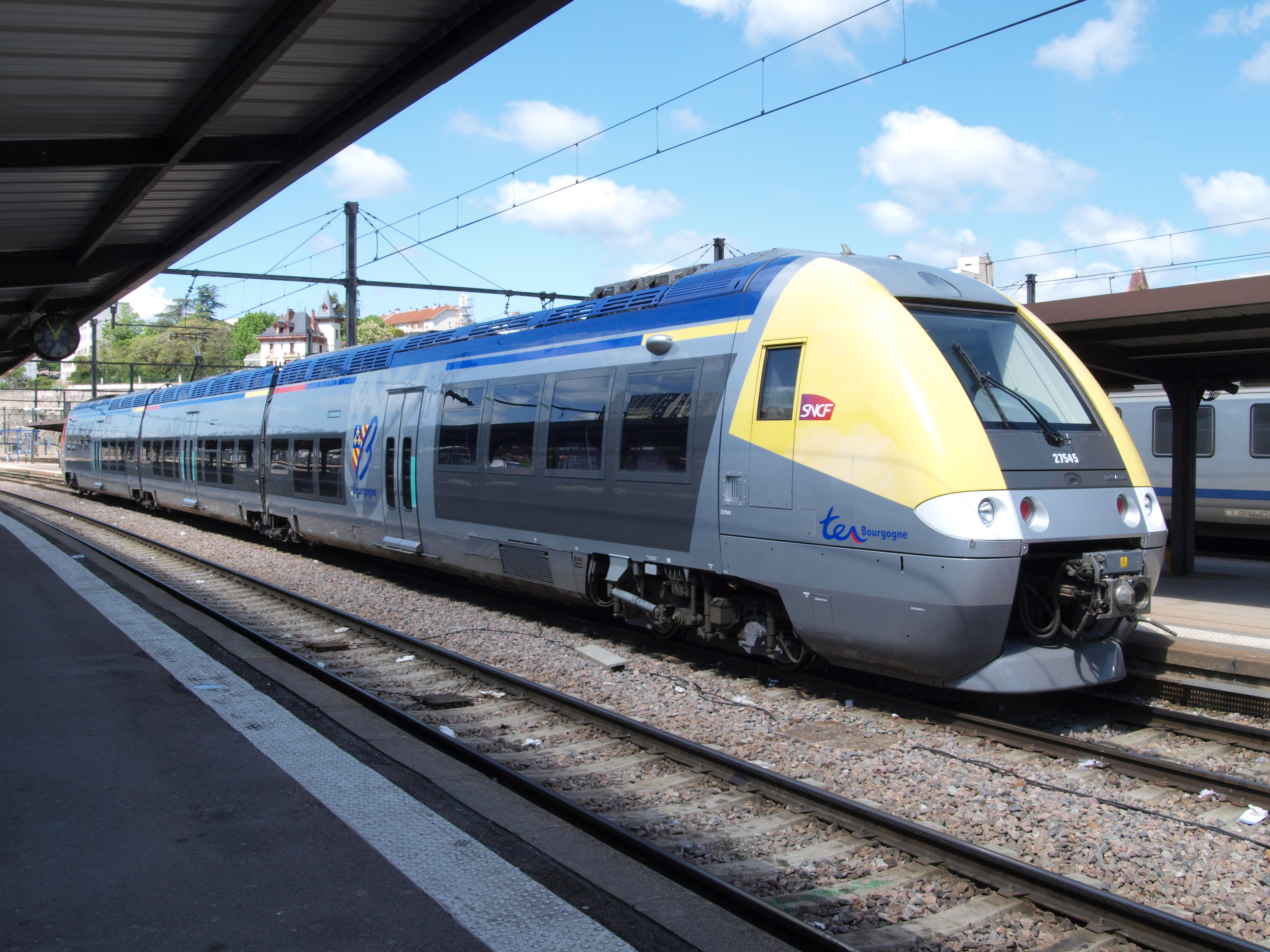 Photographed in France. (EMU means electric multiple unit.)